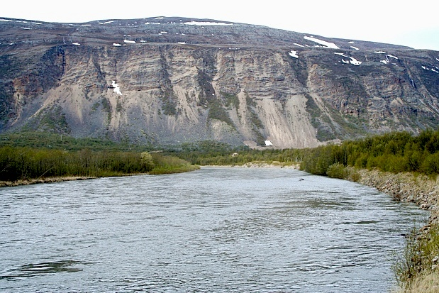 Lakselva near Lakselv